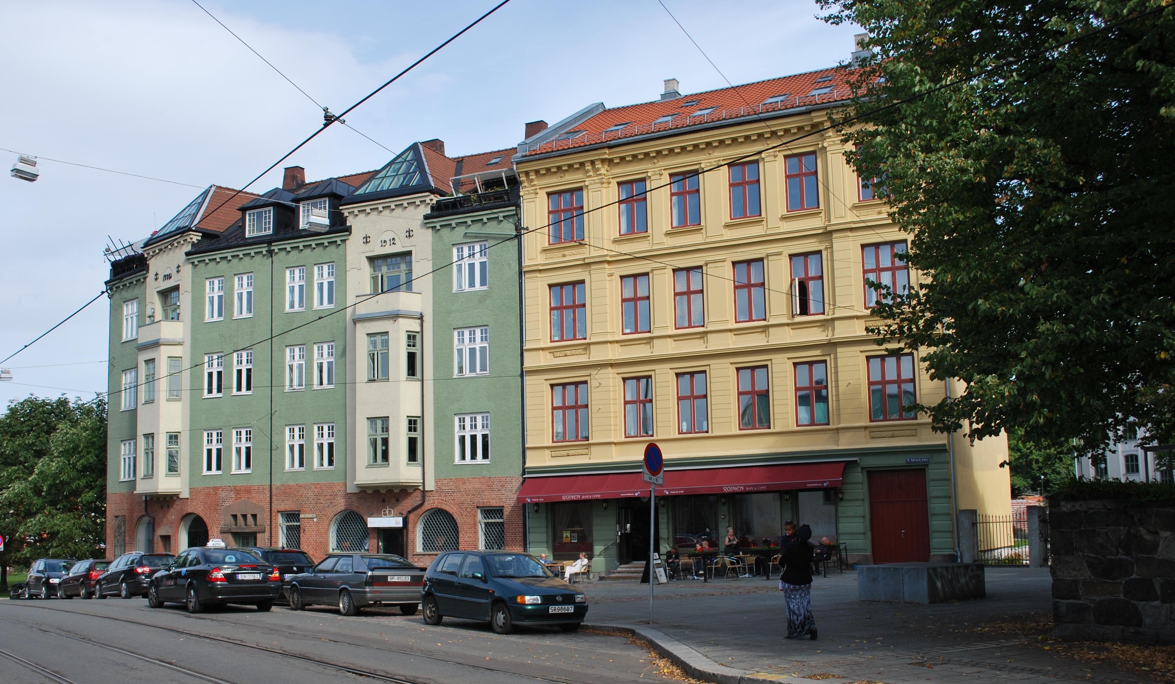 St. Hallvards plass (square), Gamlebyen neighbourhood, Oslo